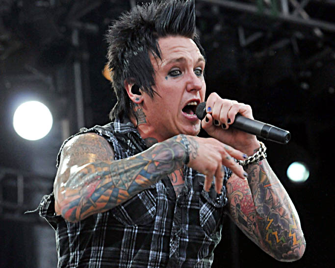 Jacoby Shaddix, singer of Papa Roach on Main Stage, Sziget Festival Budapest 2010